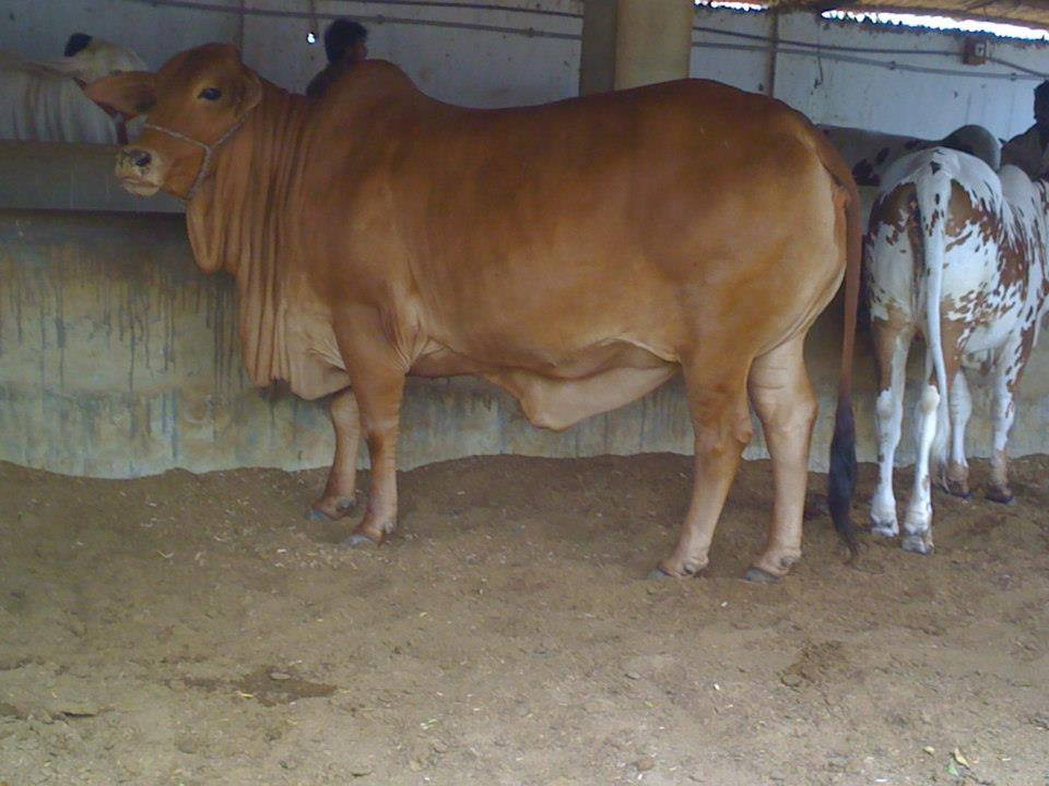 Red Sindhi cow eating pasture